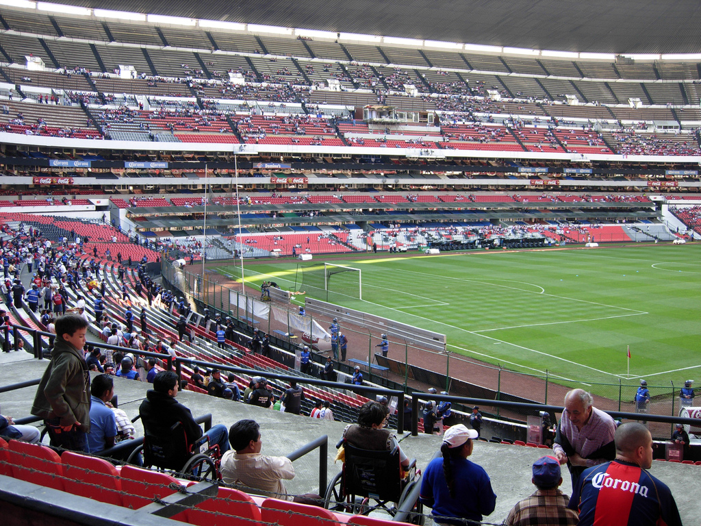 The Estadio Azteca, the second largest stadium in the world, in an afternoon for the between América and Chivas